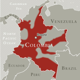 Areas containing FARC presence.